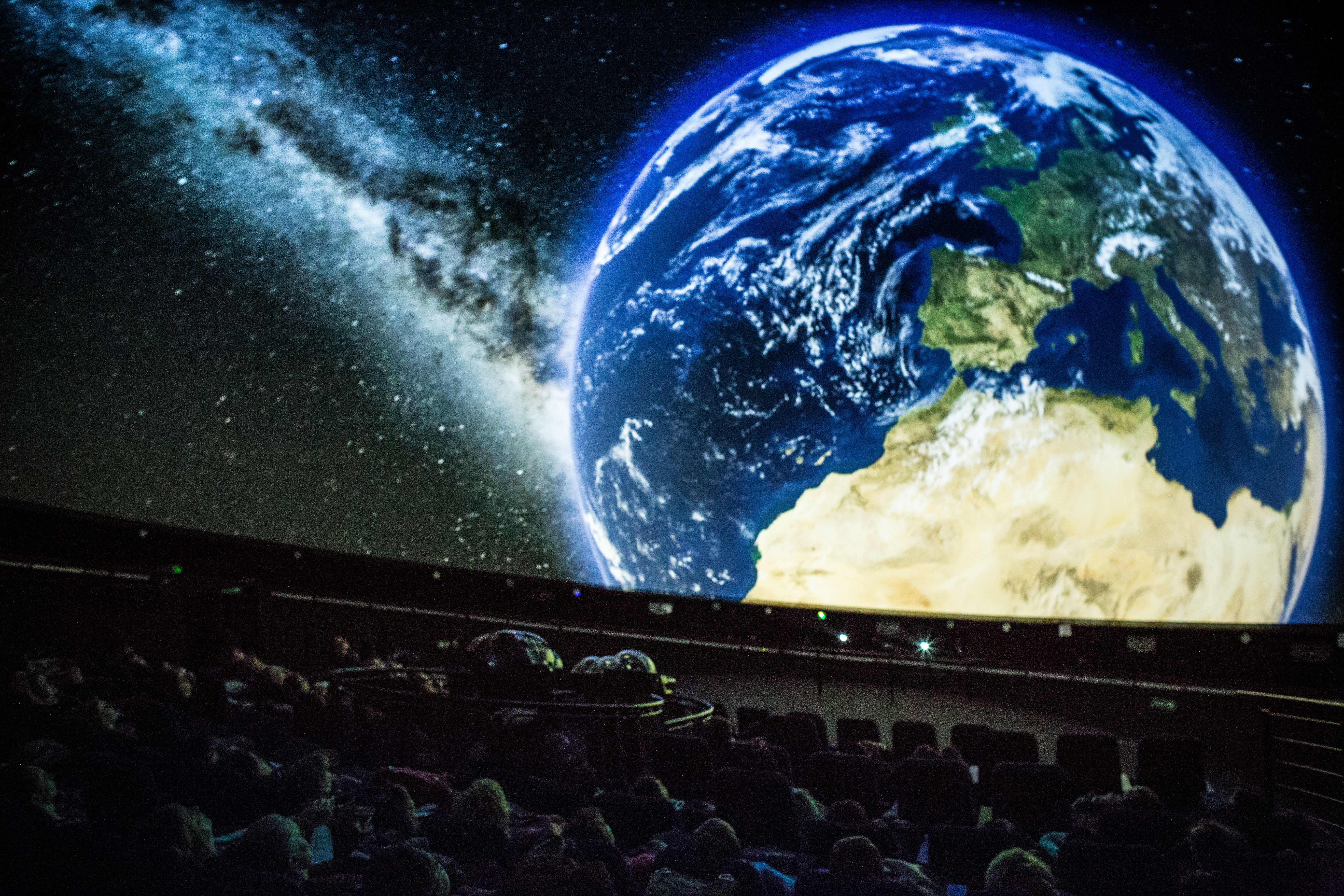 Warsztaty ESERO dla nauczycieli pt. "Kosmos w szkole" 11.10.2014, Warszawa, Centrum Nauki Kopernik - Planetarium. Fot. Adam Kozak